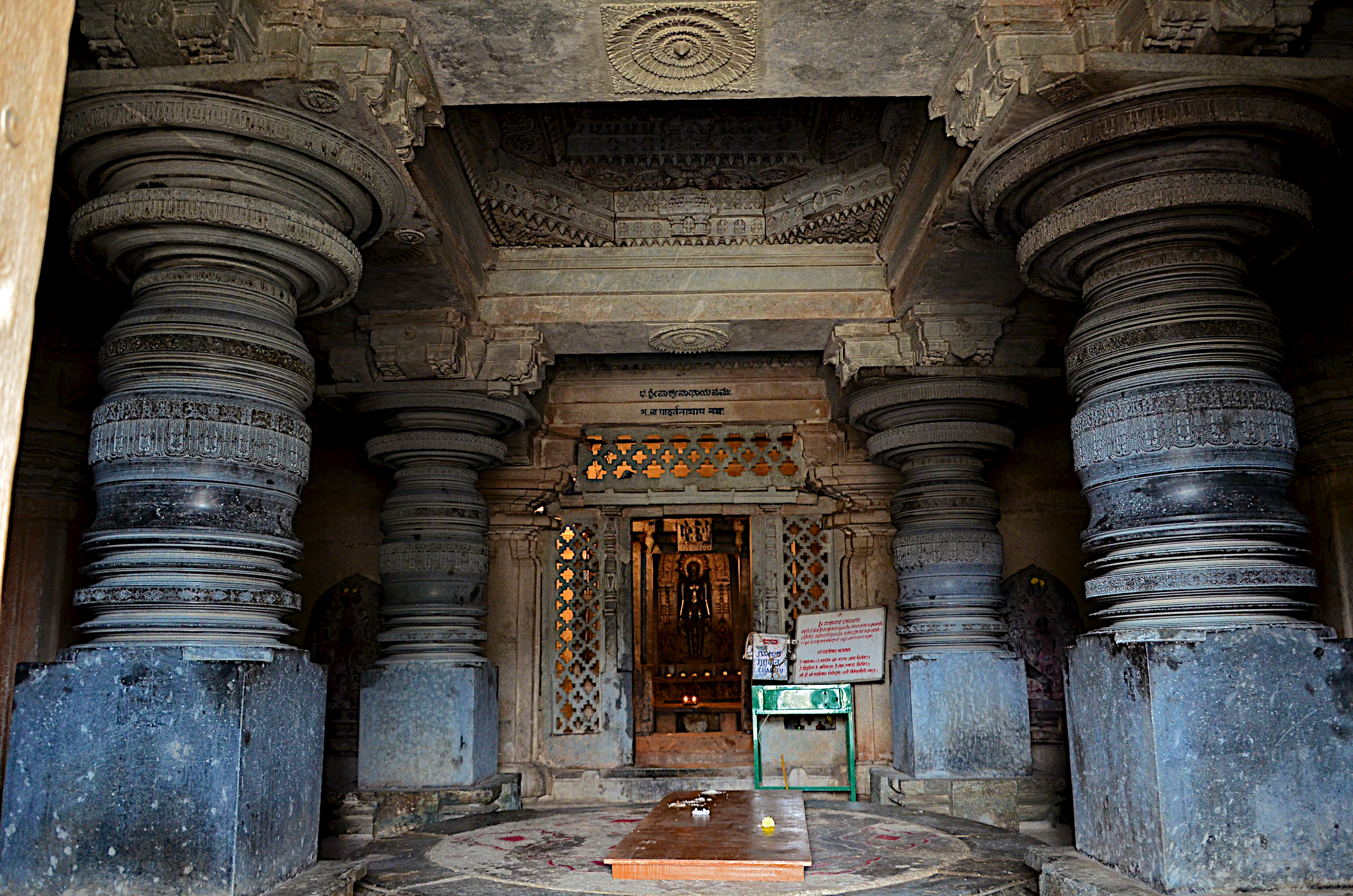 The inside view of Akkana Basadi. The 4 intricately carved pillars can be seen and the idol of the main deity - Parsawnath can also be seen in the center. To the left, stone idol of Yaksha Dharanendra and to the right, stone idol of Yakshi Padmavathi can be seen.